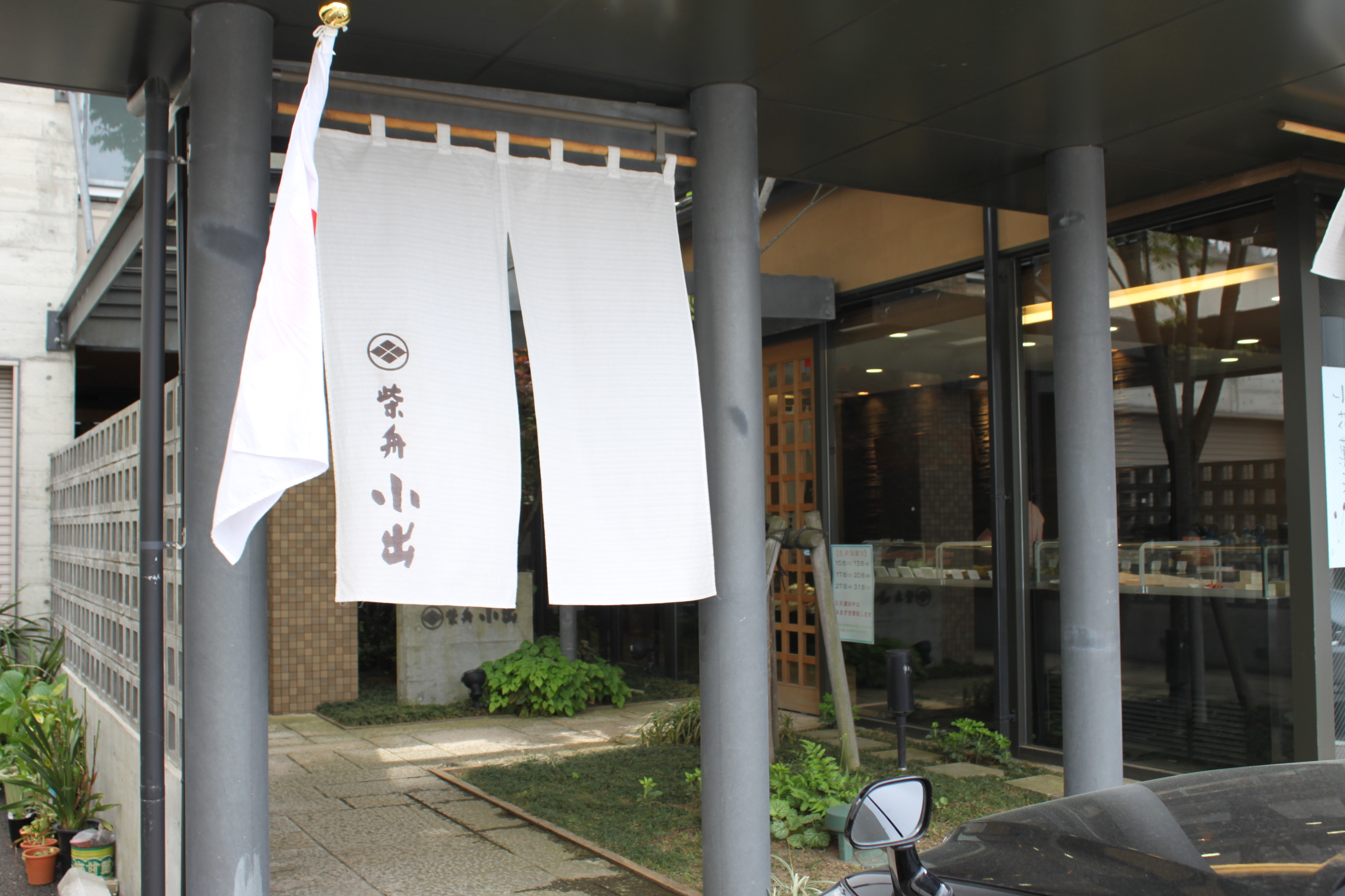 Shibafune Koide, Japanese sweets shop, in Kanazawa city